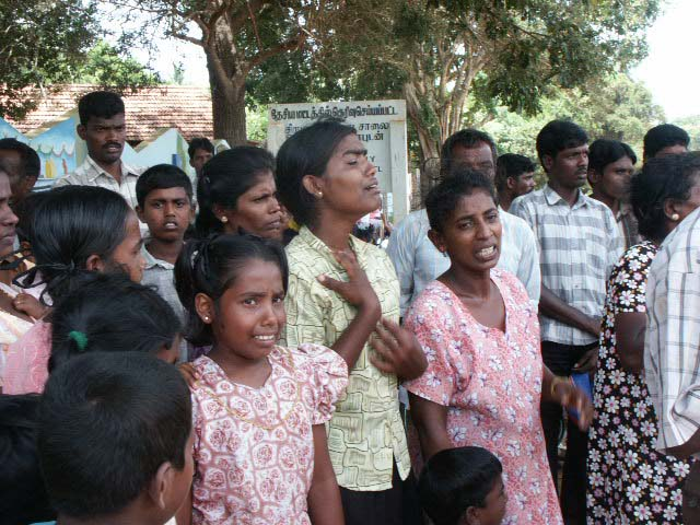 Sorrowful Tamil refugees on Sri Lanka, September 2008.